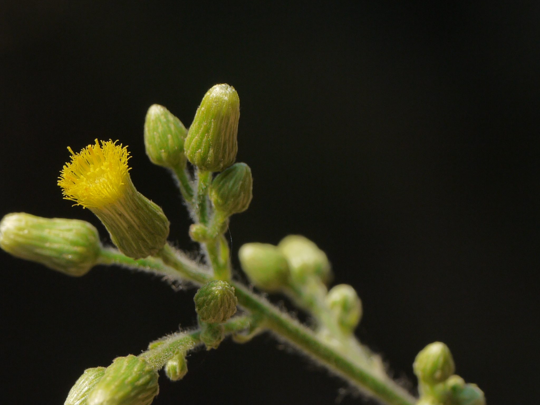 Asteraceae (aster, daisy, or sunflower family) » Blumea lanceolaria (Roxb.) Druce blum-EE-uh -- named after Karl Ludwig von Blume, Dutch botanist lan-see-oh-LAIR-ee-uh -- lance-like commonly known as: lance-leaved blumea • Manipuri: তেৰা পাঈবী মচা tera paibi macha • Mizo: buar-ze Native to: s China, e Asia, Indian subcontinent, Indo-China, Philippines References: Further Flowers of Sahyadri by Shrikant Ingalhalikar • NPGS / GRIN • ENVIS - FRLHT